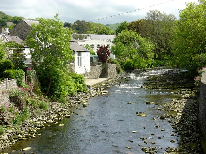 The River Aeron at Aberaeron. Taken by Aeronian on 26 May, 2007.